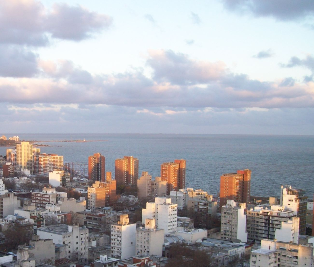 Barrio Sur, Montevideo, Uruguay